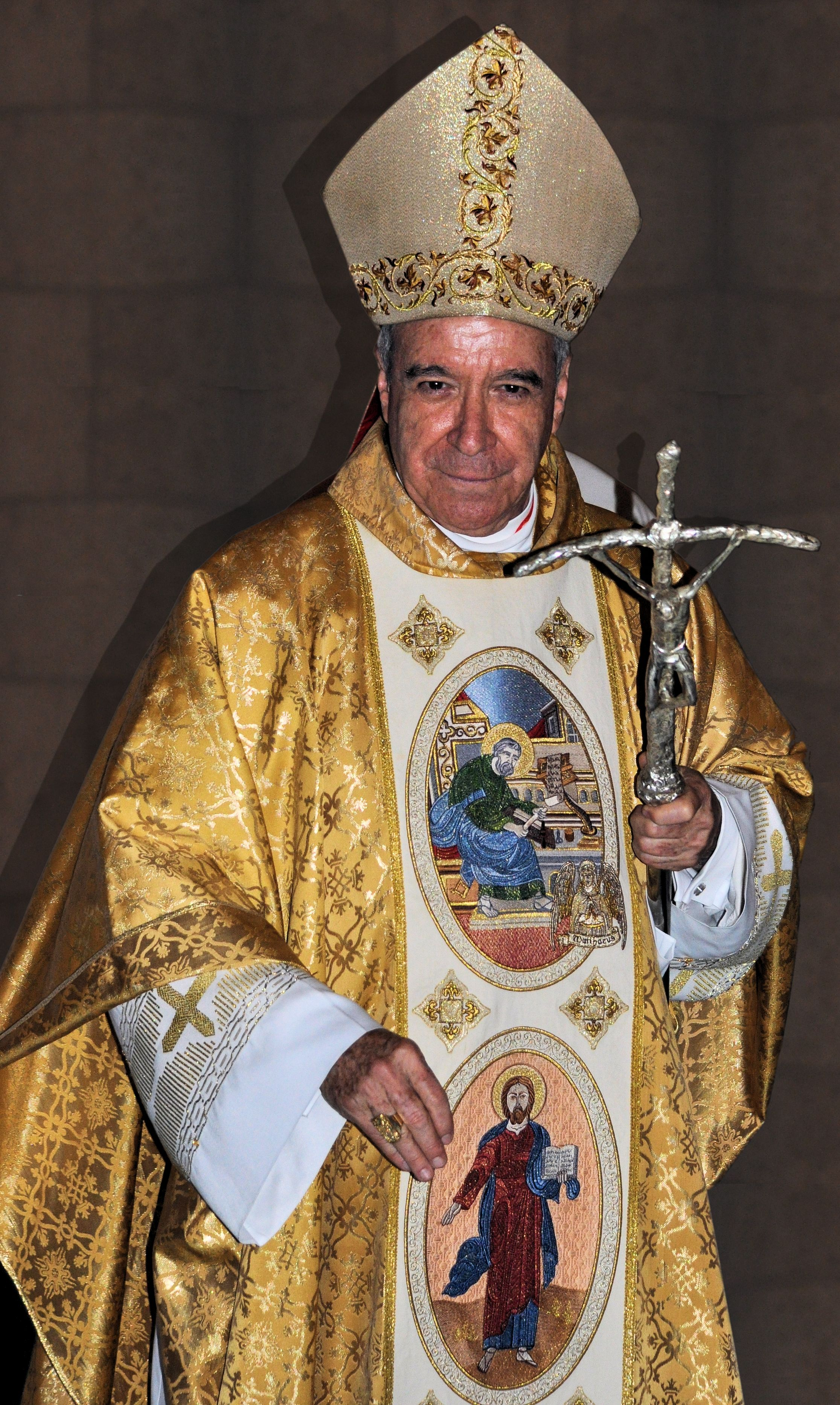 Cardinal Nicolás de Jesús López Rodríguez - Cathedral Primada of Americas - Easter Sunday 2013